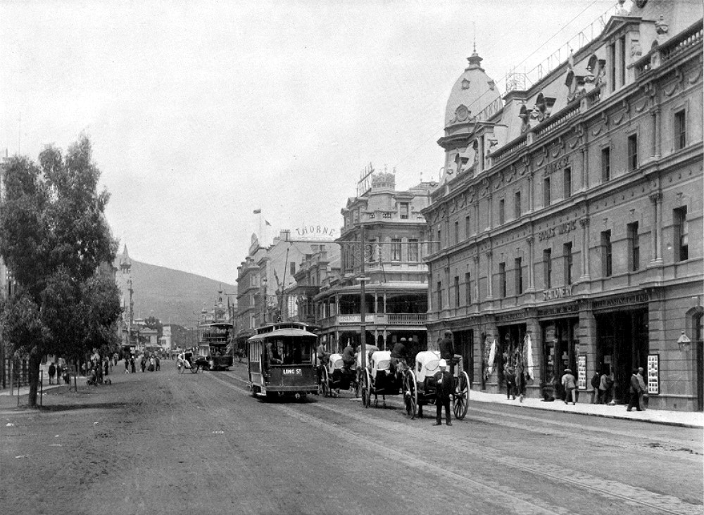 Original caption reads: "View of Adderley Street, Cape Town, from opposite the Custom House. The chief thoroughfare of Cape Town does not impress one as being very attractive on turning the corner of the Dock Road, as the shops, &c., on either side of the lower end of the street are unworthy of notice. When, however, the Railway Station is reached, the visitor is struck by the handsome buildings which line the thoroughfare. Adderley Street has undergone wonderful changes during the last ten years, and has been much improved. ; it is now a busy thoroughfare, two lines of trams pass down the street, a cab stand is stationed nearly for the whole length, and nine or ten electric lamps illuminate the street at night, which presents a gay and animated appearance."